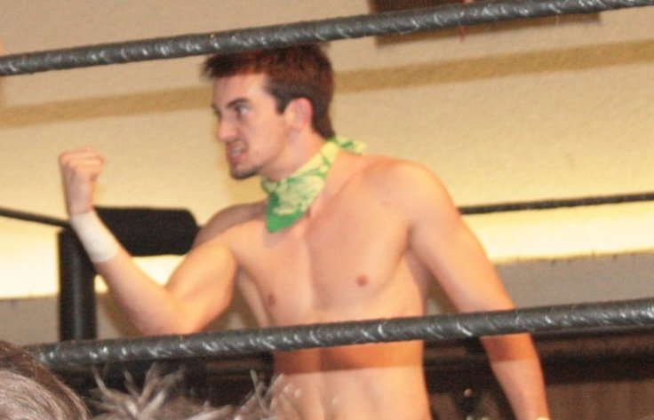 Peter Avalon at Pro Wrestling Guerrilla's Fear show in December 2011. Cropped from original.